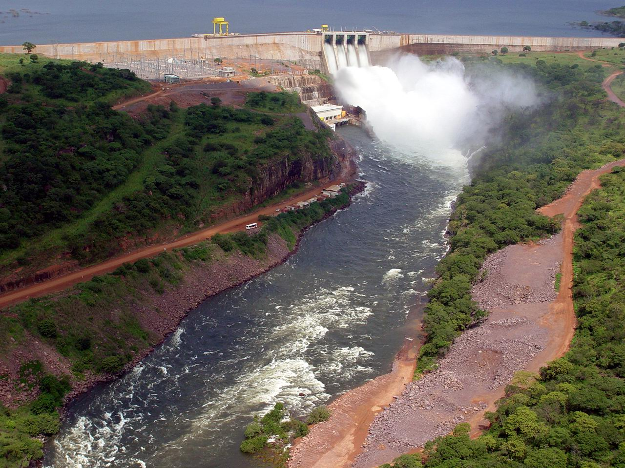 The Capanda Dam in Angola. Other: Usina Hidroelétrica de Capanda - Angola